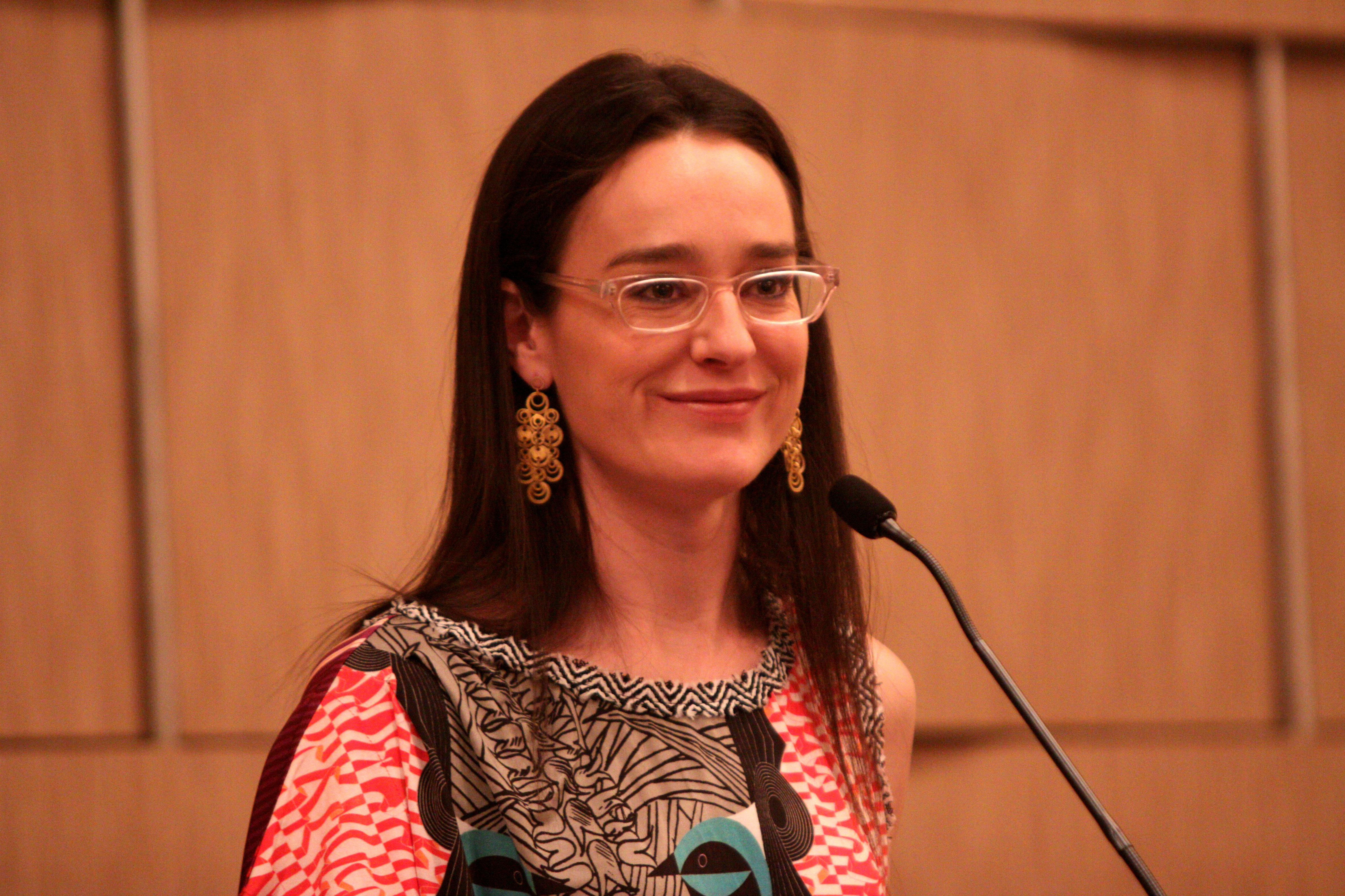 Lisa Kennedy Montgomery speaking at the 2013 International Students for Liberty Conference in Washington, D.C.